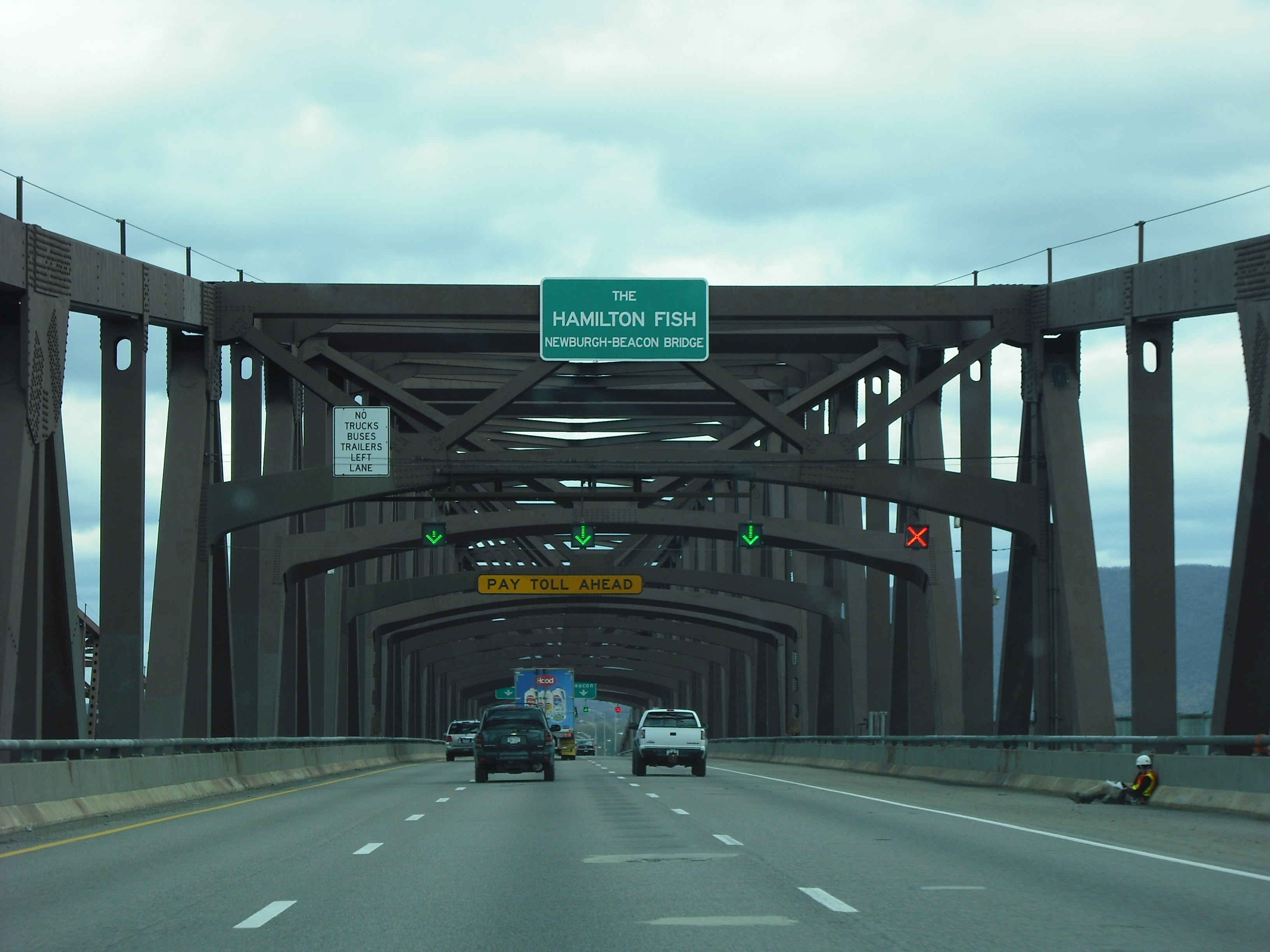 View of the Hamilton Fish Newburgh-Beacon Bridge, NY, USA, heading eastbound.